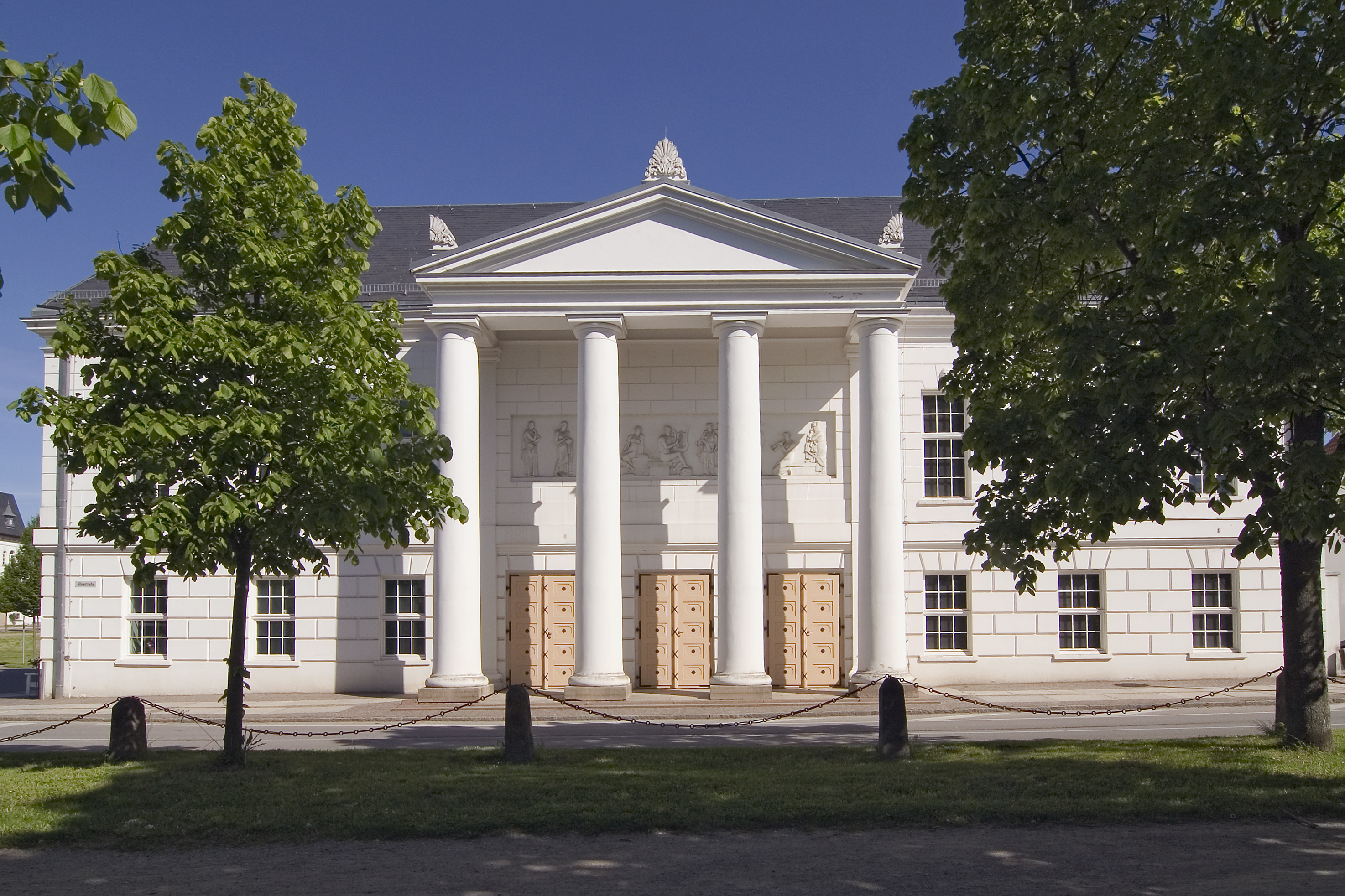 Putbus (island of Rügen), theatre